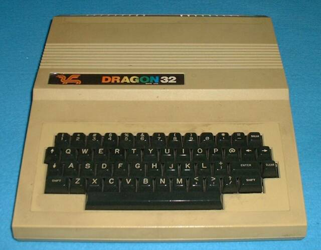 A Dragon 32 Home Computer. Image created 9th January 2005 by Gavin Long (Blufive)